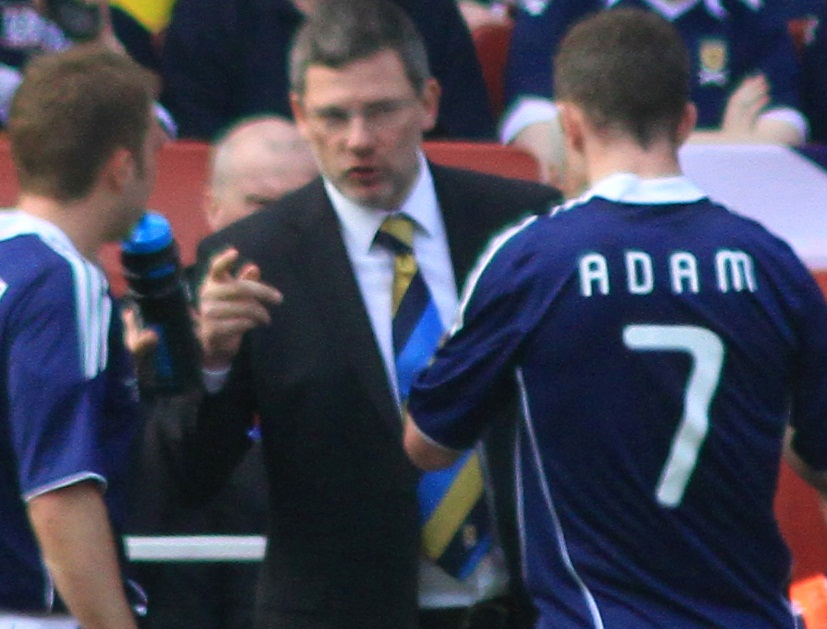 Scotland manager Craig Levein providing instructions to players James Morrison and Charlie Adam during the Brazil v Scotland match on 27 March 2011, played at the Emirates Stadium in London.